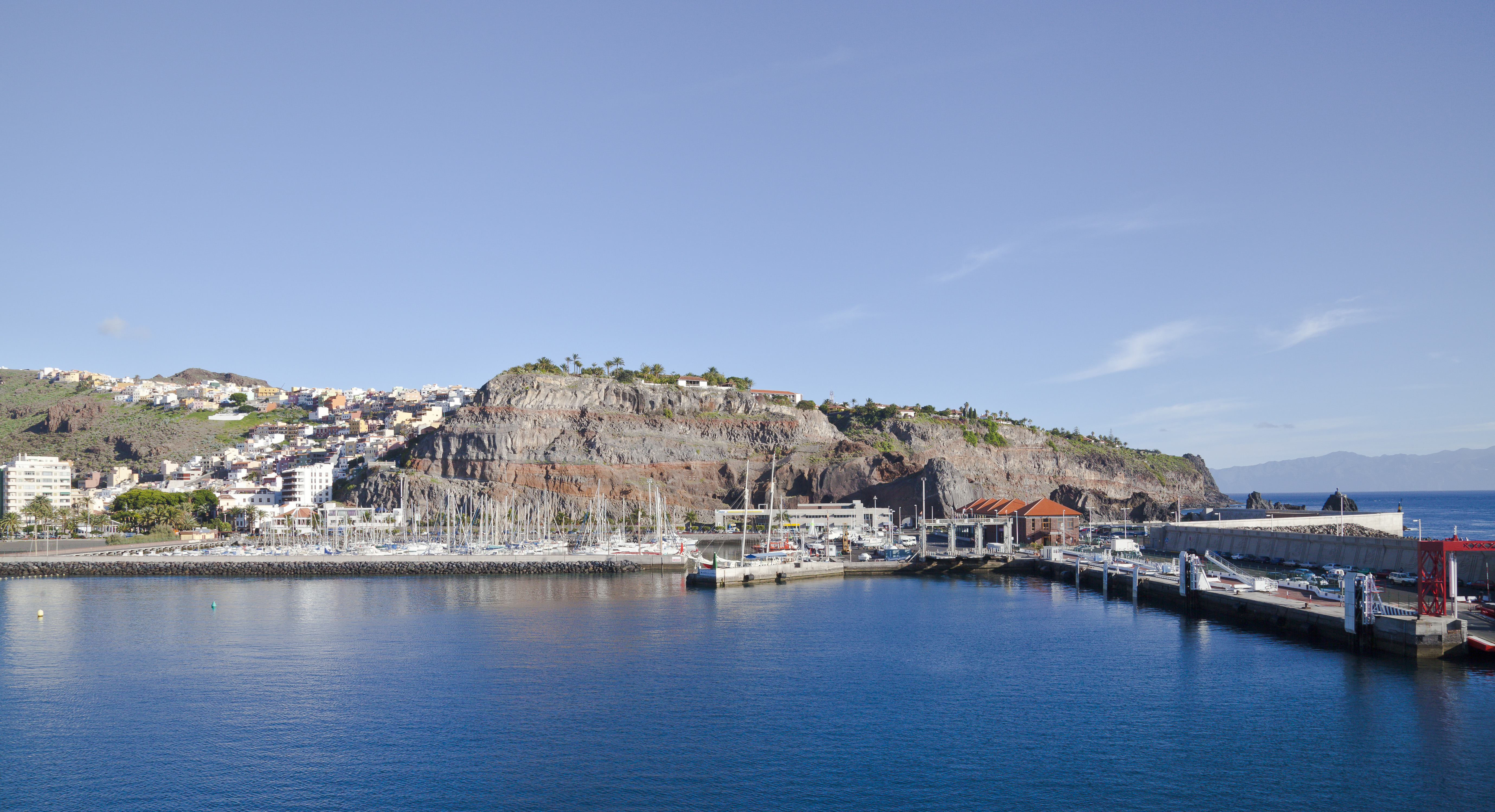 View of Harbour San Sebastián de la Gomera, La Gomera, Spain